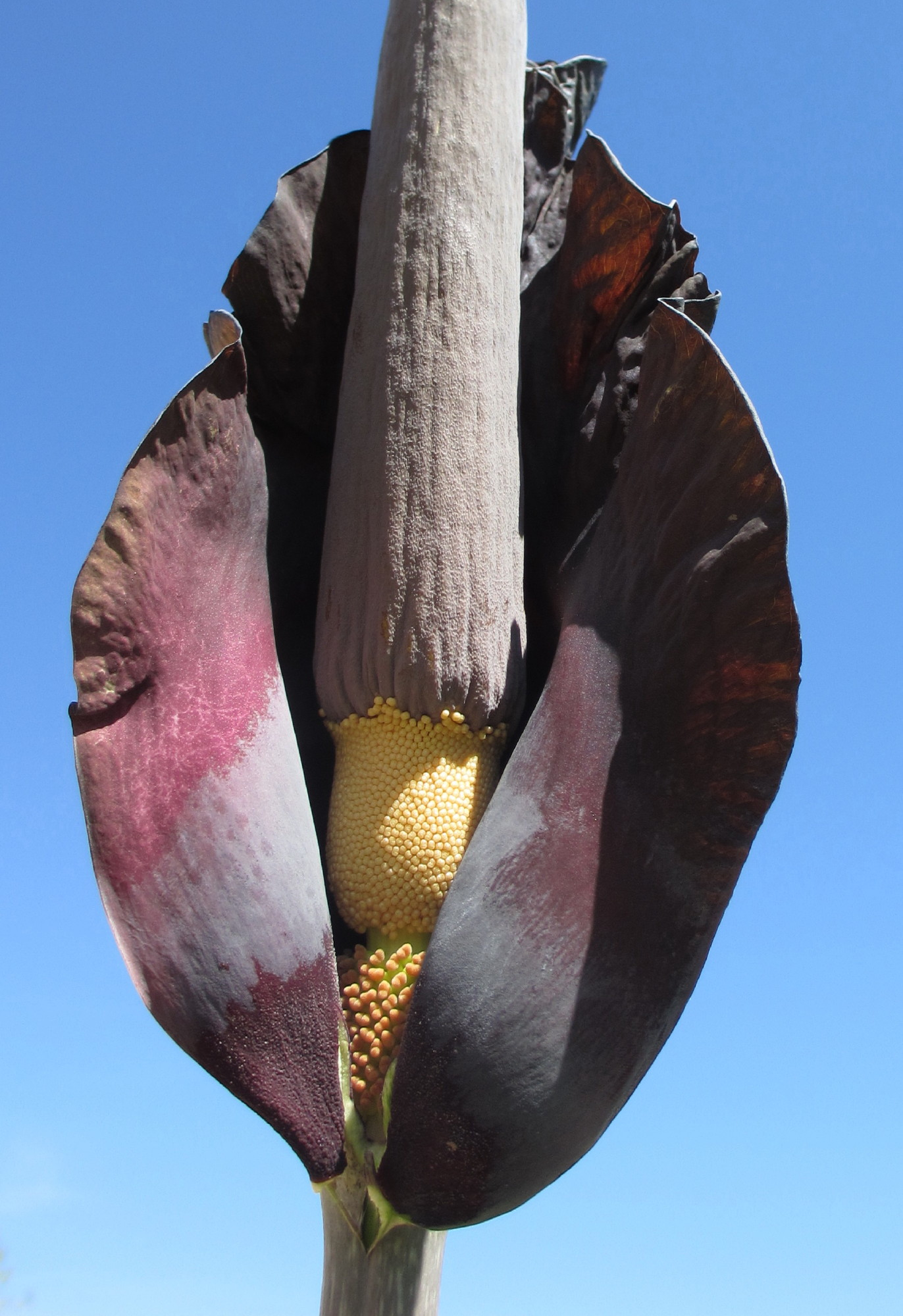 Detail of wild Amorphophallus maximus from northern coastal Mozambique. Very peculiar is the extremely long spadix (81 cm). See also other pictures of this set.